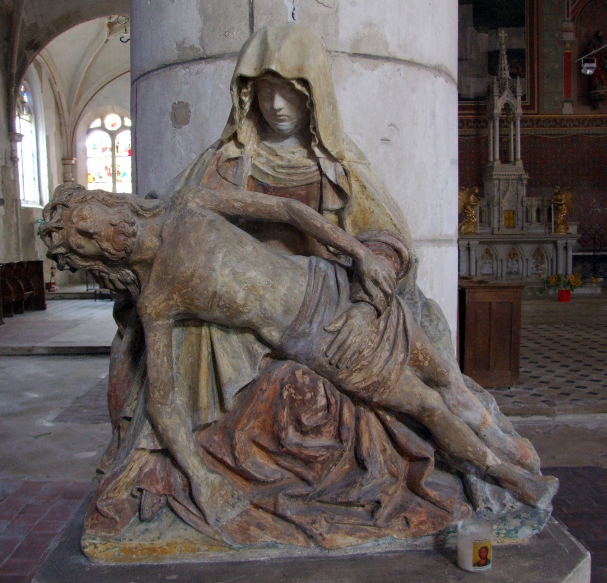 Joigny, Yonne, Burgundy, FRANCE